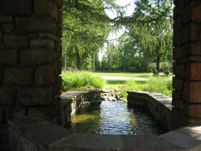 View through Porte Cochere of Fountain at Graycliff